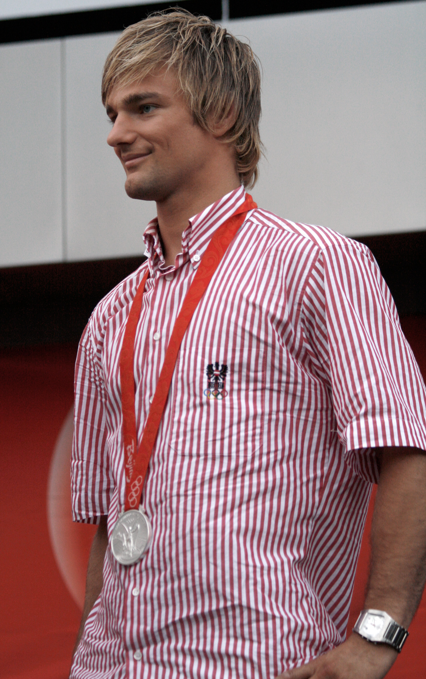 Austrian judoka Ludwig Paischer with the silver medal he won at the 2008 Summer Olympics in Beijing.